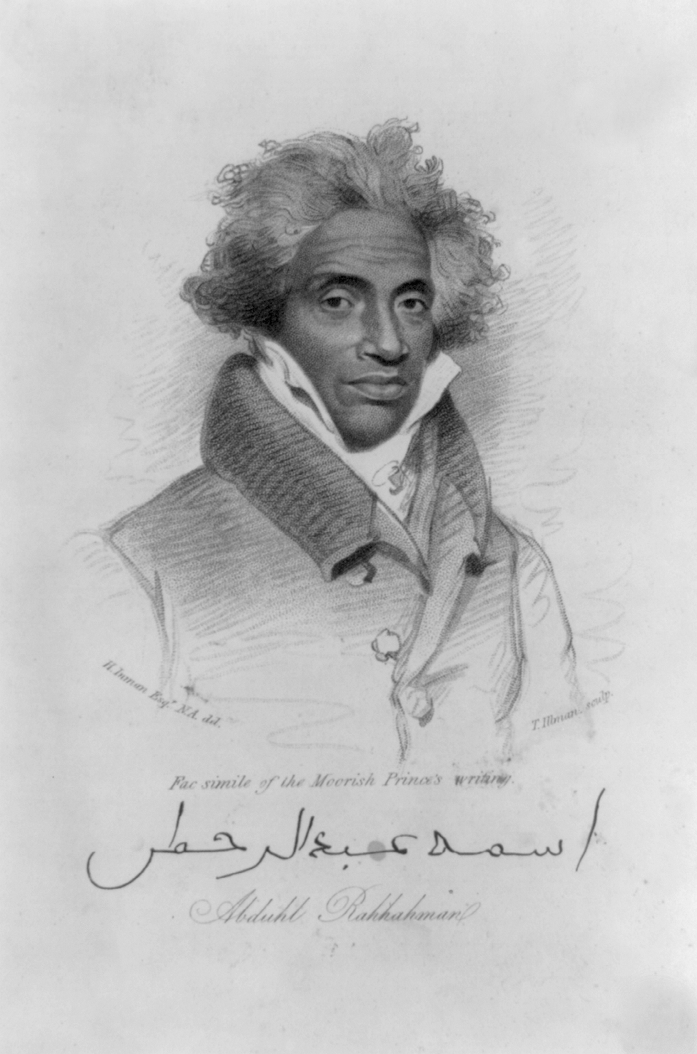 Abduhl Rahhahman by H. Inman, engraved by T. Illman. Portrait of a West African prince known as Ibrahima, Prince of Slaves, and Abdu-l-Rahman Ibrahim Ibn Sori. He was captured as a war prisoner and became a slave in the United States for 40 years. He was freed in 1828. Library of Congress Prints and Photographs Division. Illustration from: The Colonizationist and Journal of Freedom, Boston: G.W. Light, 1834, frontispiece. Printed below portrait: "Facsimile of the Moorish prince's" (Arabic script).